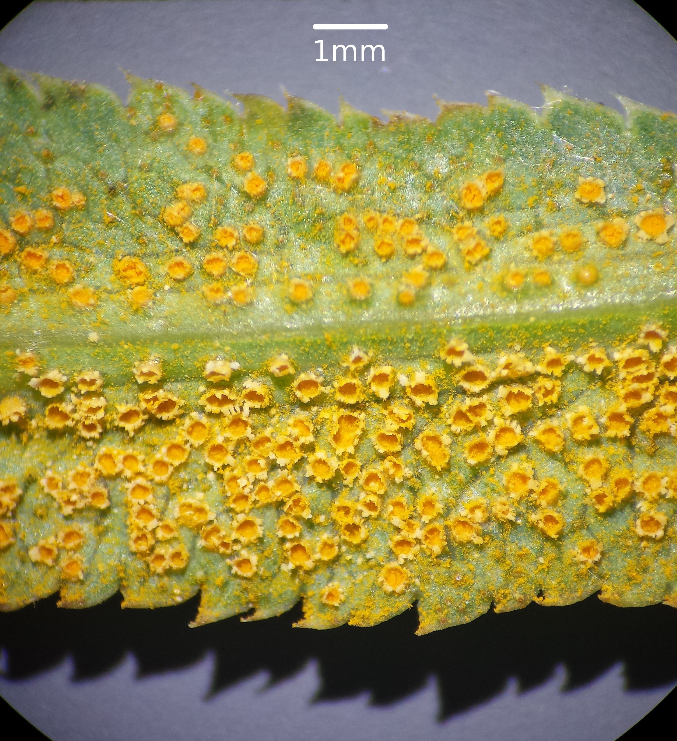 Leaf with rust (fungus) Taxon: Falcaria vulgaris (sensu Fischer et al. EfÖLS 2008) Location: Riedenthal, district Mistelbach, Lower Austria - ca. 240 m a.s.l. Habitat: dry grassland